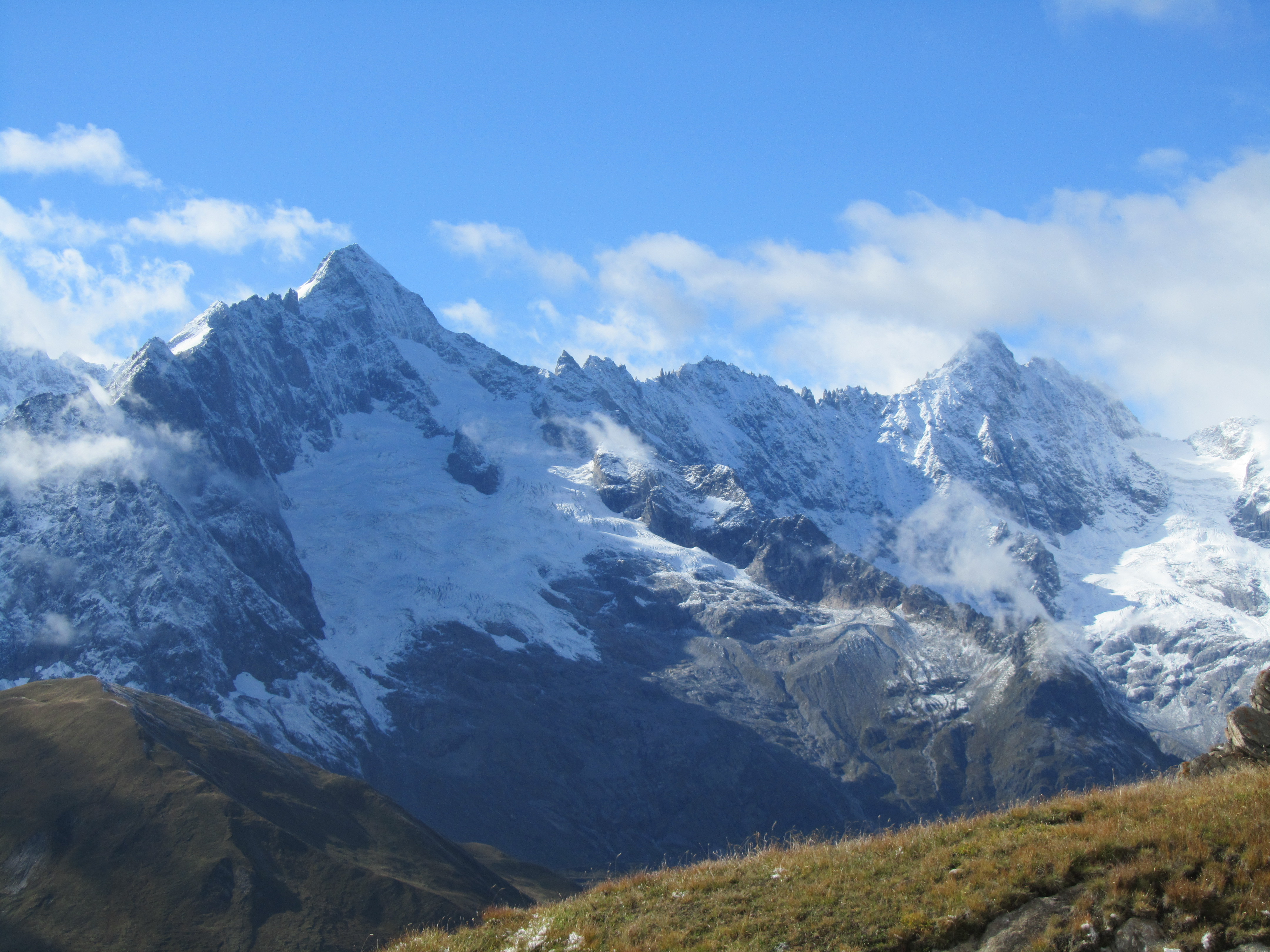 View from Lacs de fenêtre to the Mont Dolent and the Tour Noir